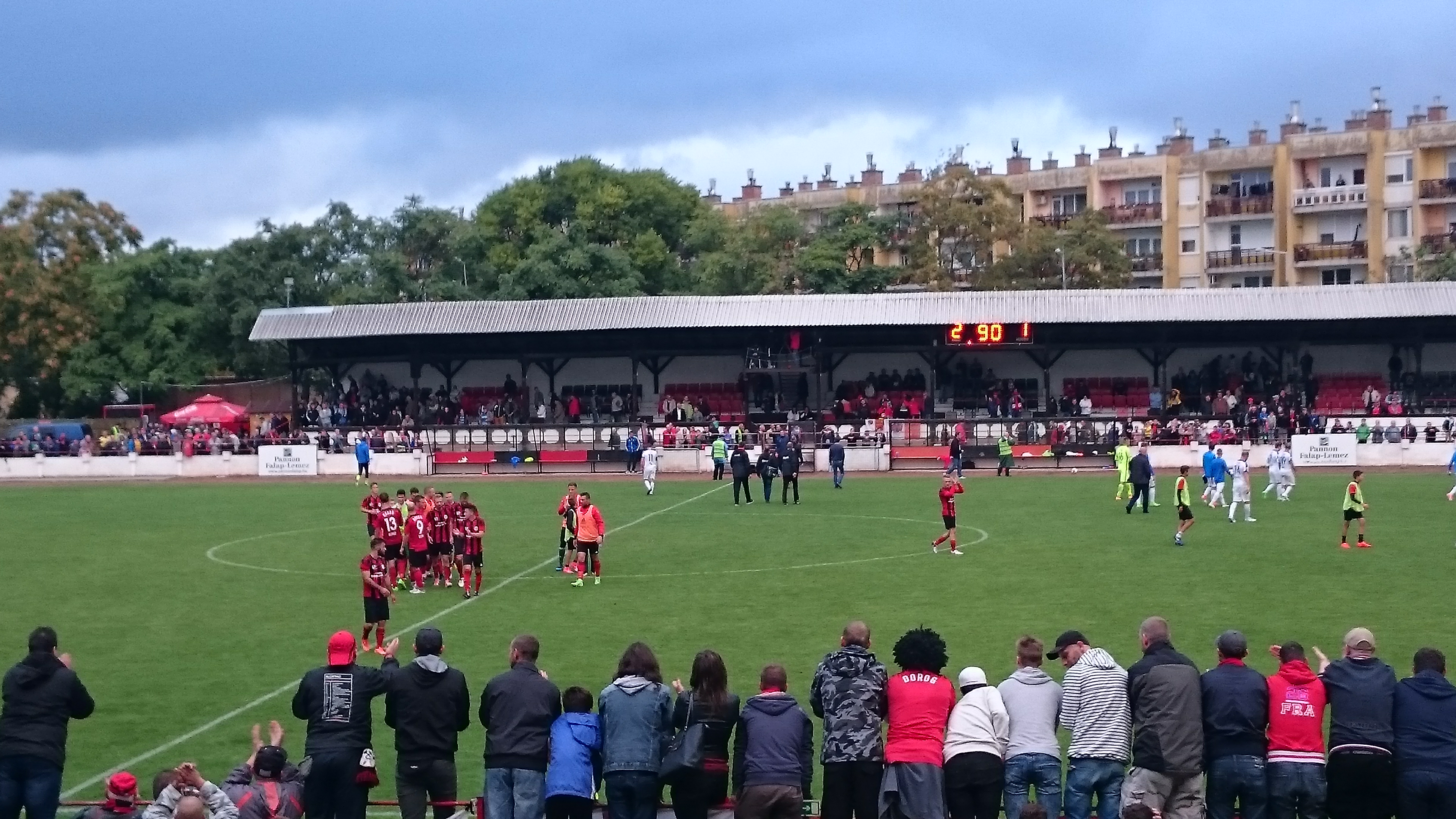 FC Dorog won over the best favorite team MTK 2-1 in the second division on September, 2017.